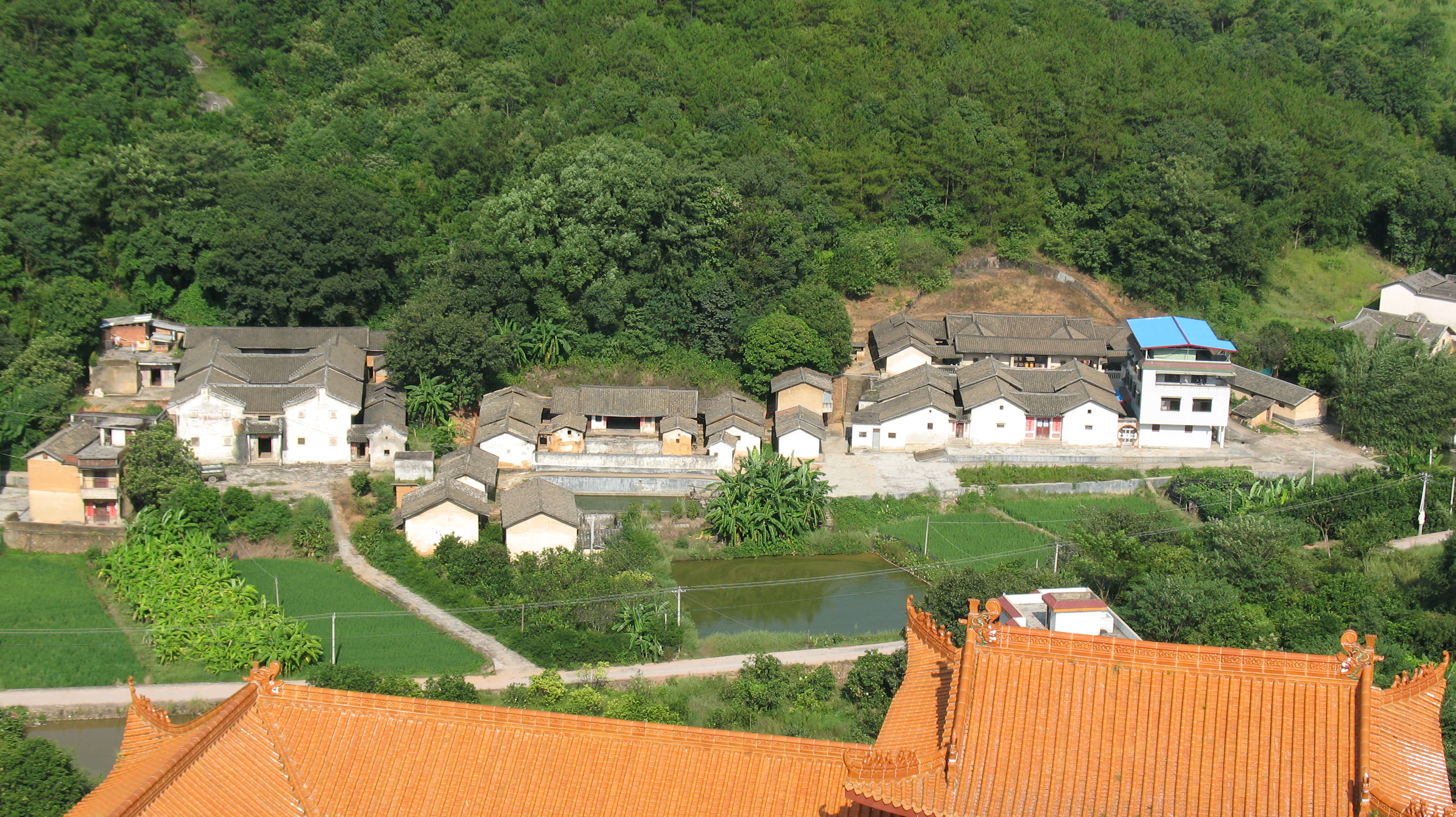 traditional Hakka Buildings, Meizhou, China 2006